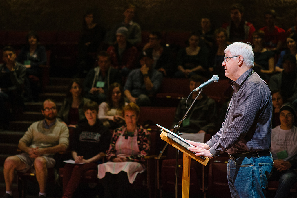 The University of the Fraser Valley presents the 19th Annual Directors' Festival at the Chilliwack campus theatre this weekend. Rick Collins Photographer - UFV